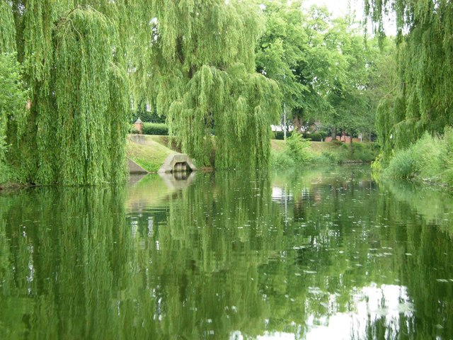 River Welland, Spalding. Willows reflect in the peaceful water of the River Welland just south of the town centre.